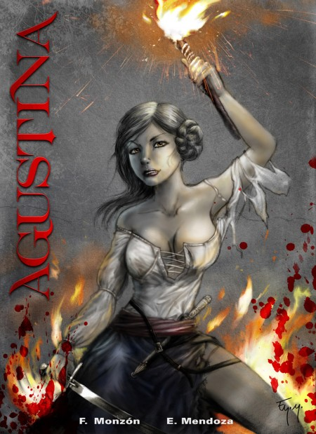 Comic Cover for Agustina de Aragon